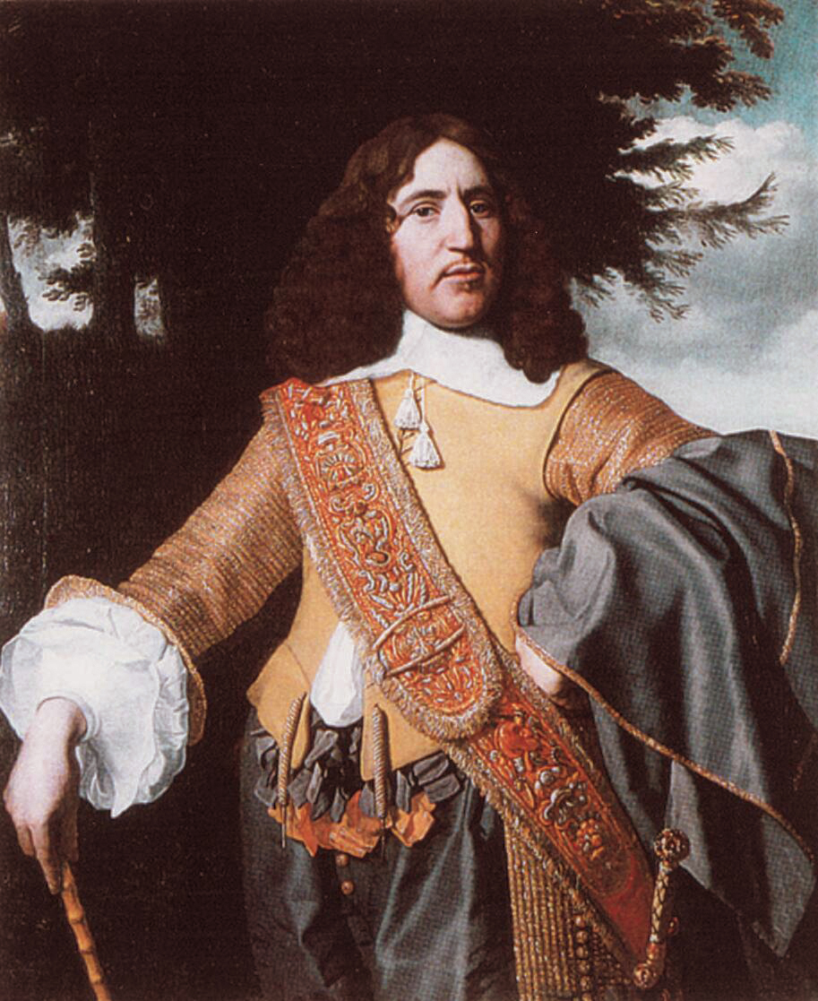 Louis de Geer (1622-1695) oil on canvas 107 x 92 cm 1655 - 1657